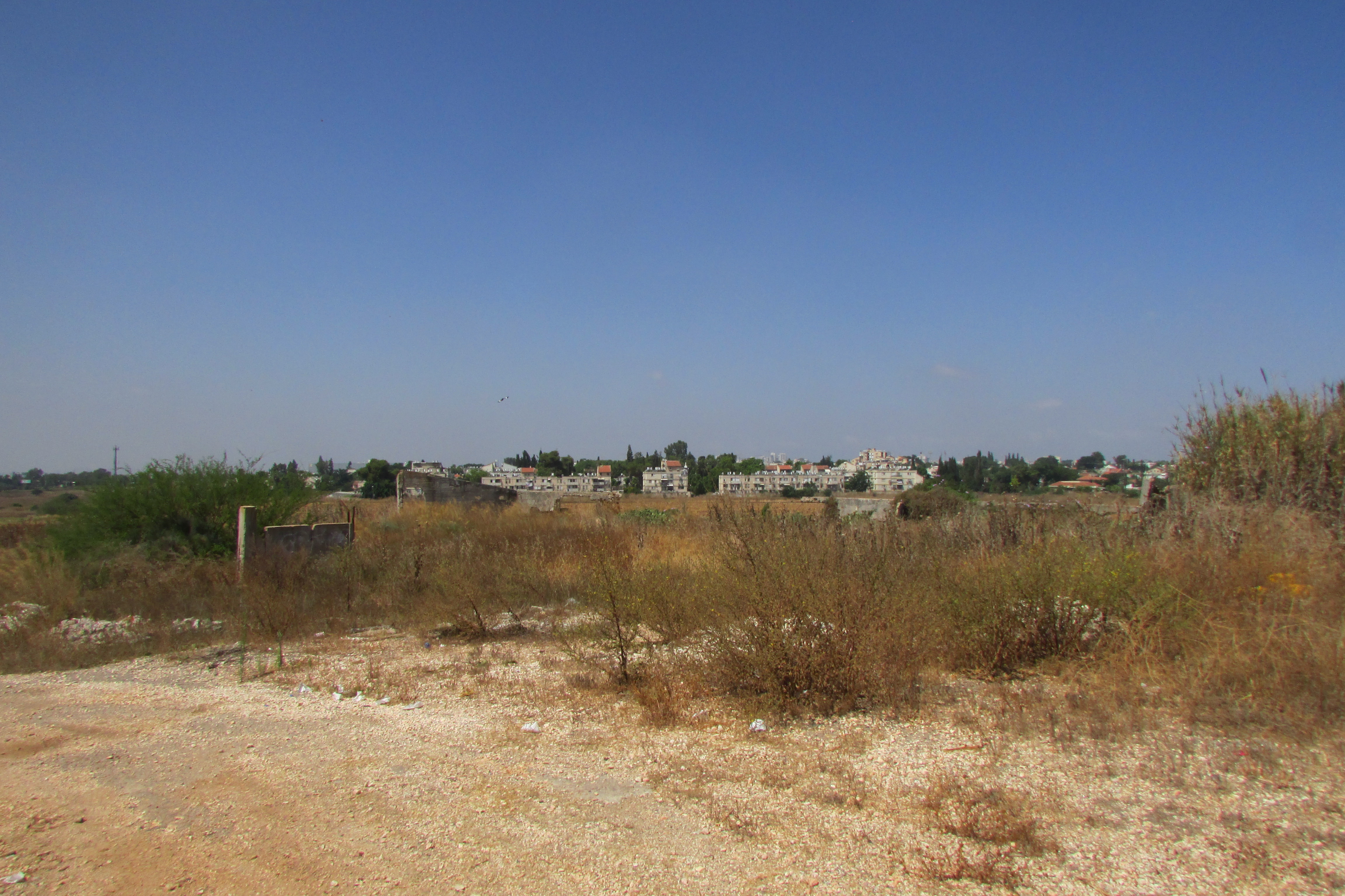 Remains of Meshek HaOtzar east of Kfar Saba